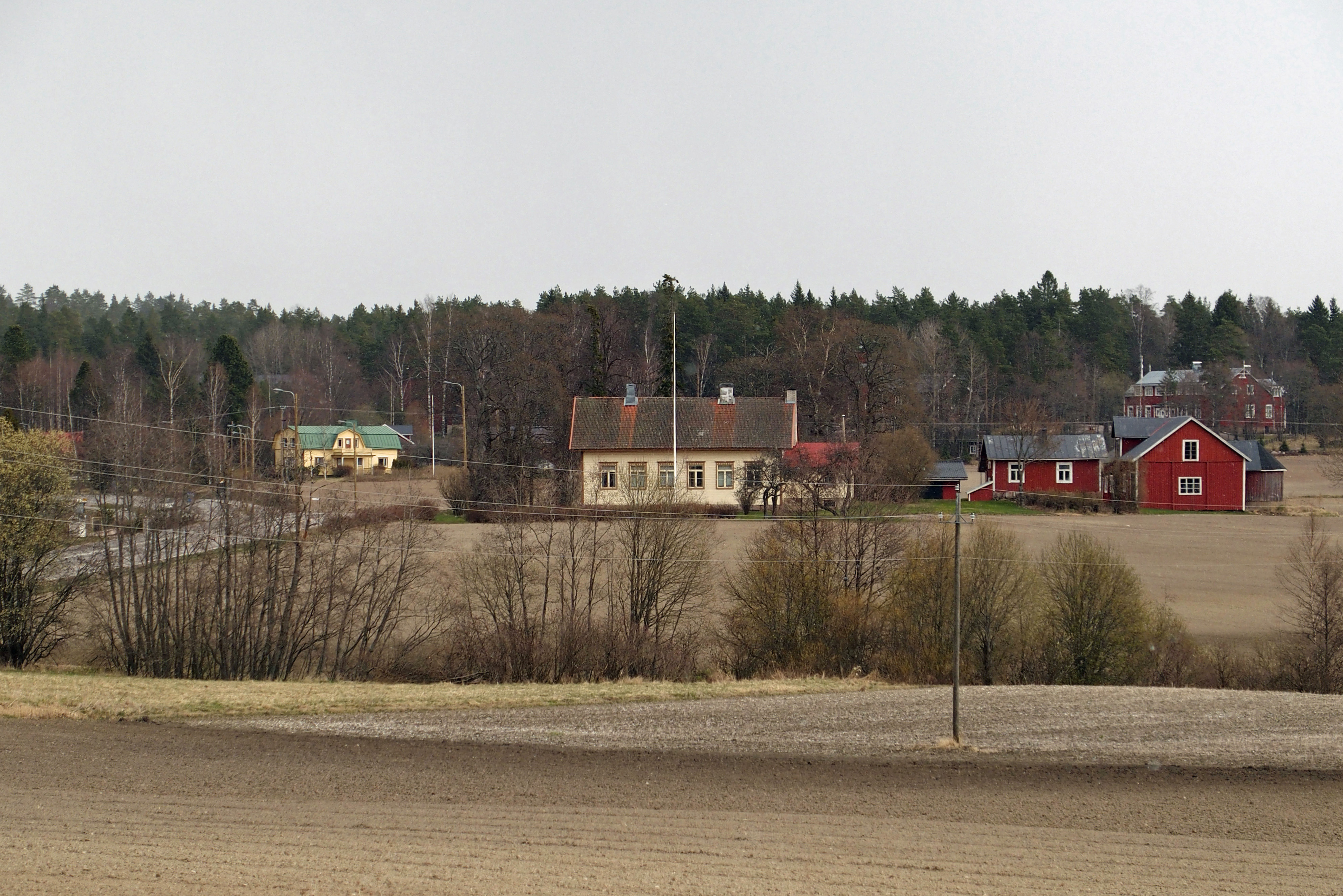 Taken towards northeast from Lapinkyläntie and Tampajantie intersection